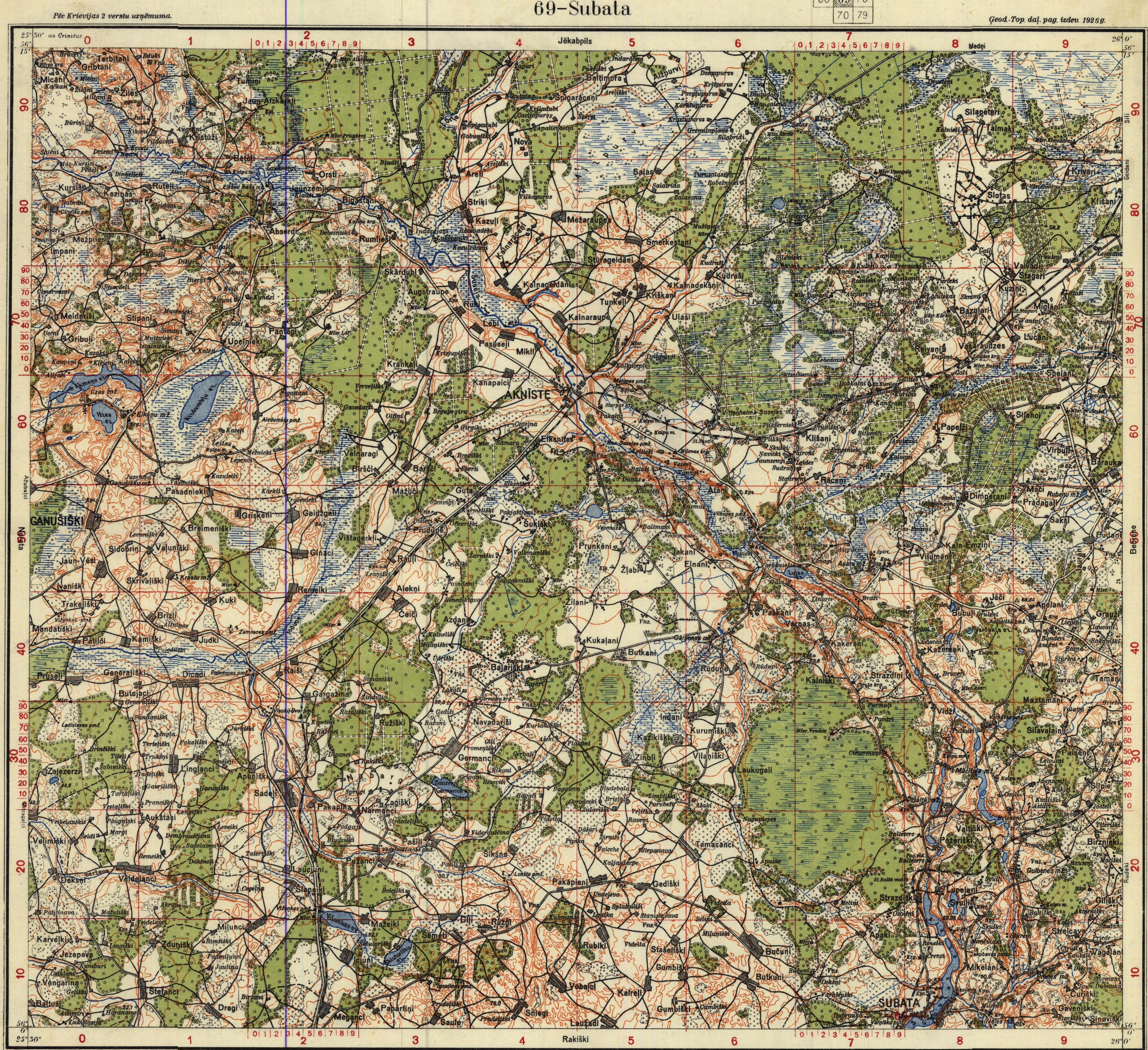 map